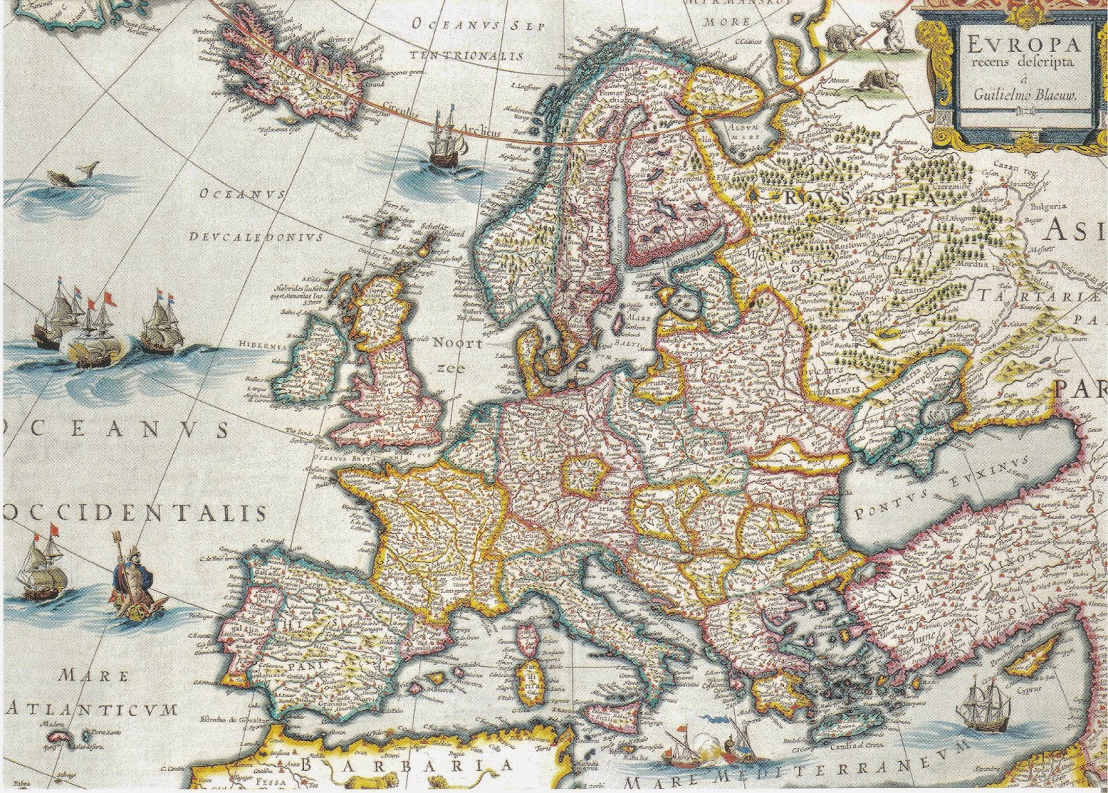 "Europa recens descripta" of Willem Blaeu (c. 1641)